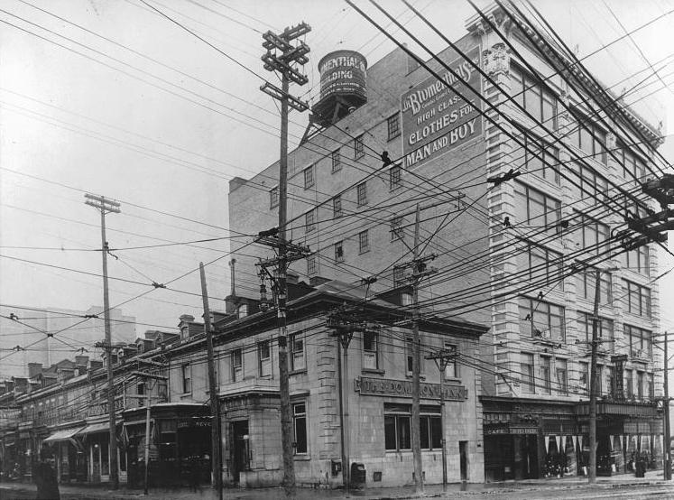 Photograph, Dominion Bank, corner Bleury and St. Catherine Streets, Montreal, QC, about 1915, Anonymous, Silver salts on paper mounted on paper - Gelatin silver process - 15 x 20 cm